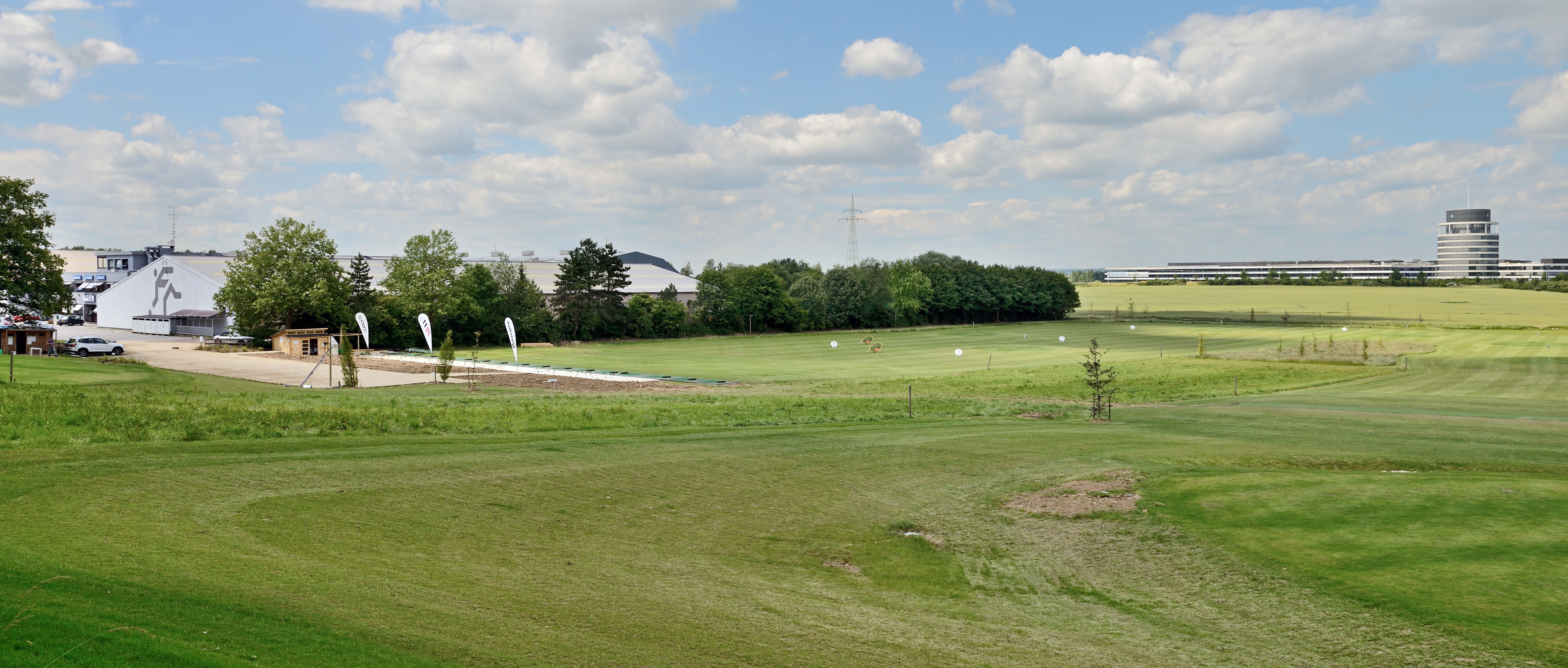 Luxembourg City, Kockelscheuer: part of Lux Golf Center. At the left: CK Sport Center (tennis, badminton and skittles). At the upper right: buildings in the Activity Centre at Cloche-d'Or.